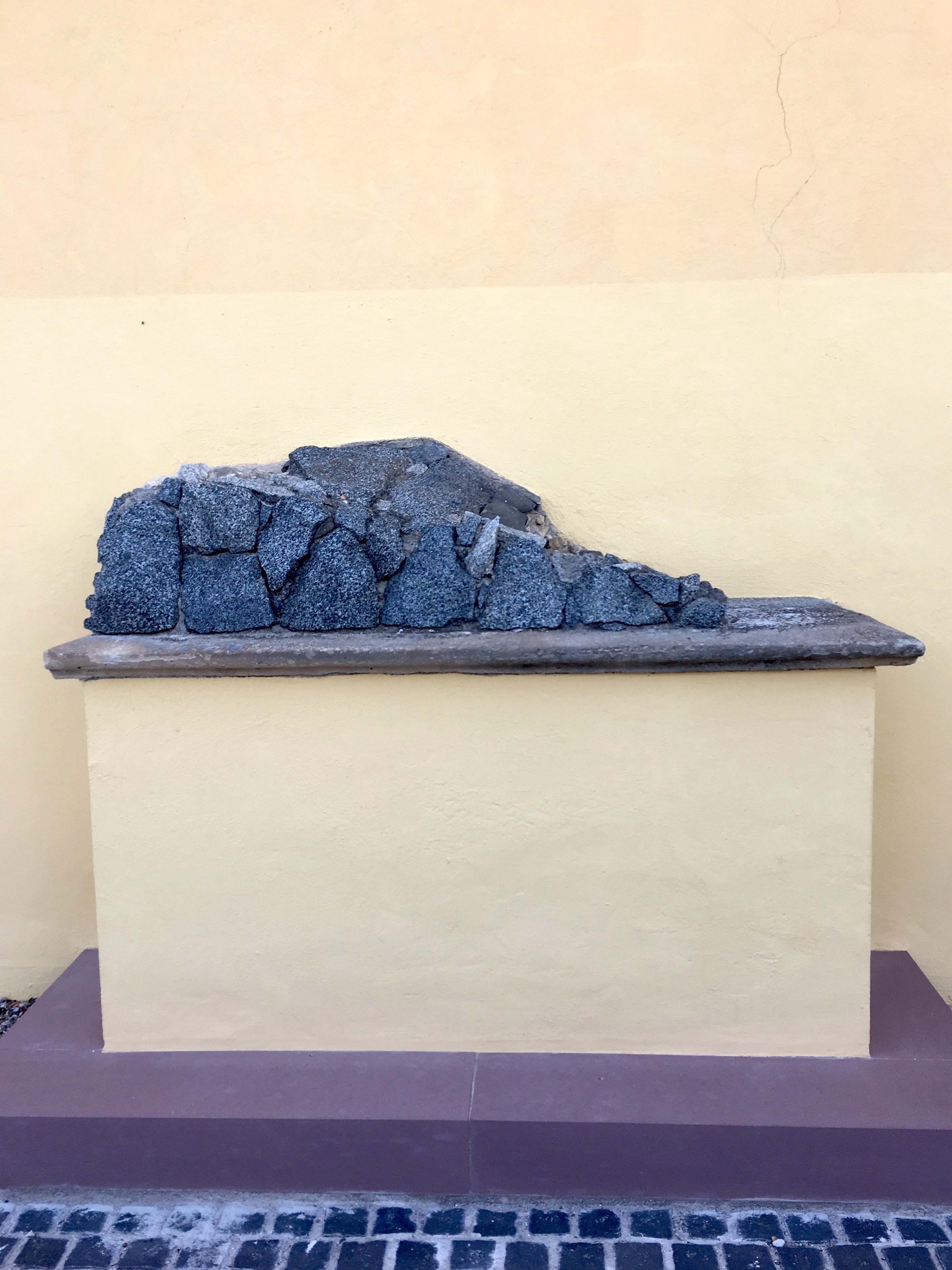 abandoned Mount of Olives group, St Gereon, Nackenheim (Germany)